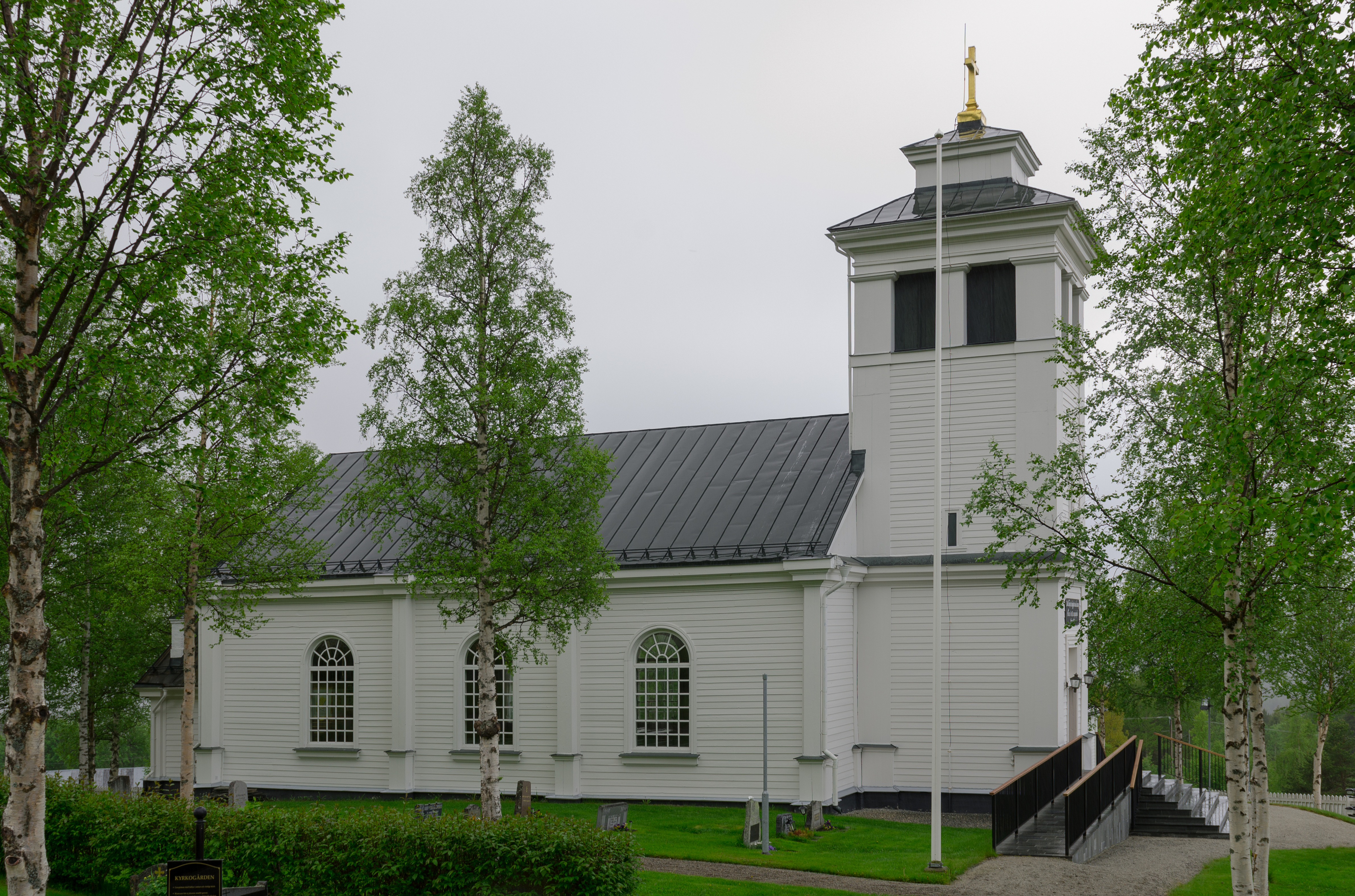 Tännäs church (Tännäs Kyrka), Church of Sweden, Diocese of Härnösand. At 648 m above sea level, it is Sweden's highest situated church. Tännäs, Härjedalen Municipality, Jämtland County.